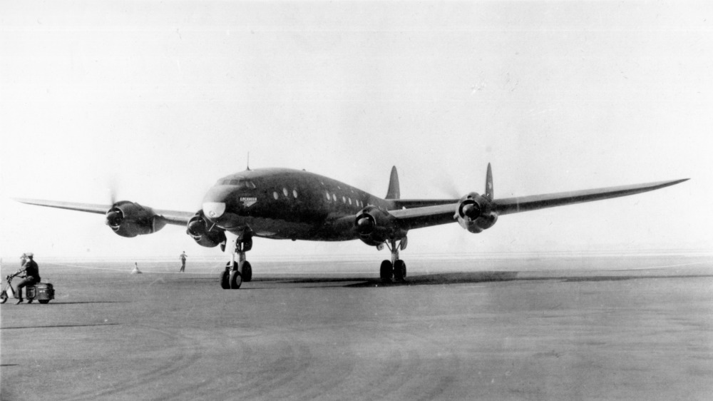 PictionID:40973217 - Title:Constellation Lockheed C-69 NX25600 - Catalog:15_002801 - Filename:15_002801.tif - Image from the Charles Daniels Photo Collection album "US Army Aircraft."----PLEASE TAG this image with any information you know about it, so that we can permanently store this data with the original image file in our Digital Asset Management System.----SOURCE INSTITUTION: San Diego Air and Space Museum Archive